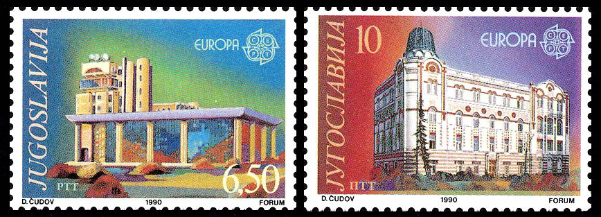 Postage stamps of Yugoslavia, 1990. Issue under the Europa-CEPT program.